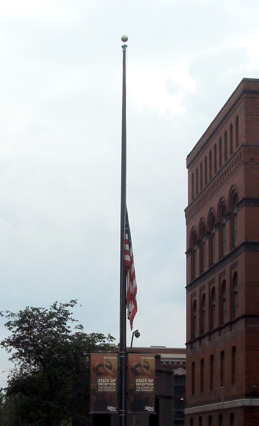 Cropped and lightened from an image I took for Wikipedia